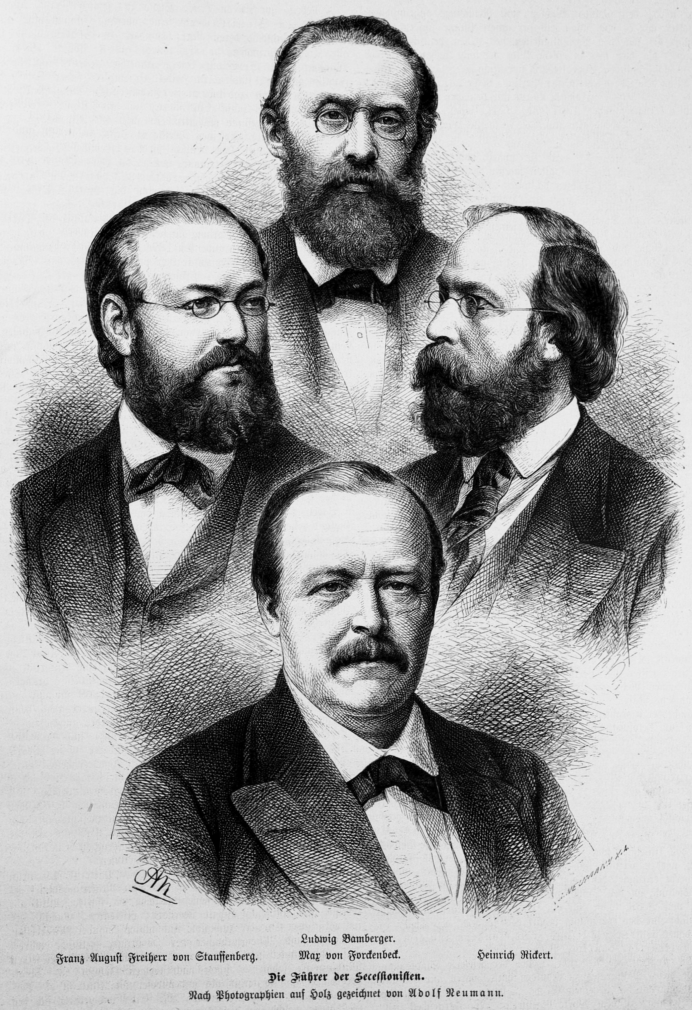 caption: "Die Führer der Secessionisten.Nach Photographien auf Holz gezeichnet von Adolf Neumann.Ludwig Bamberger.Franz August Freiherr von Stauffenberg. Max von Forckenbeck. Heinrich Rickert."